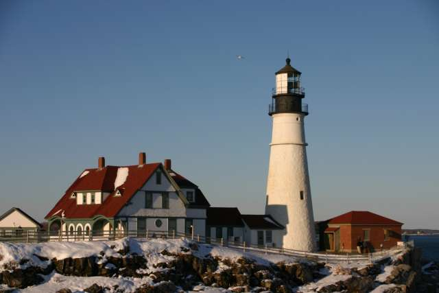 The sun reflects off of Portland Head Light on a bright winter day.